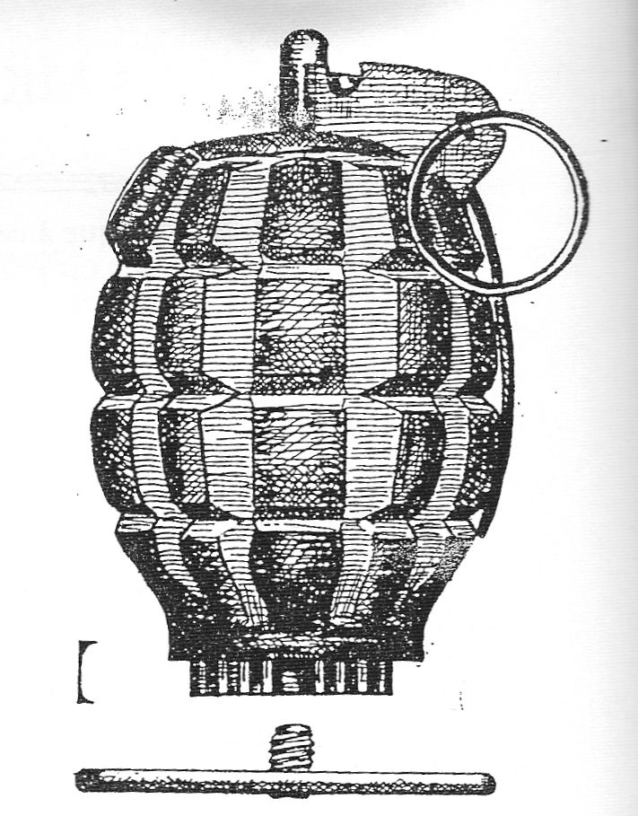 Drawing of the Mills N°36 rifle grenade, with its cup (also known as “gas checker”).